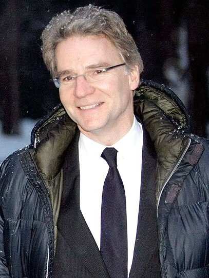 A Dmitry Medvedev's interview with Olivier Royant (Paris Match magazine) on February 18, 2010.